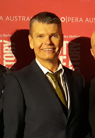 Michael Beckley at the opening night of Opera Australia's 'West Side Story' on Sydney Harbour.